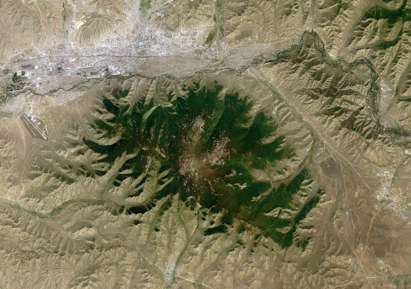 Bogd Khan Uul mount LandSat 7 image, near natural colors, 30 m resolution